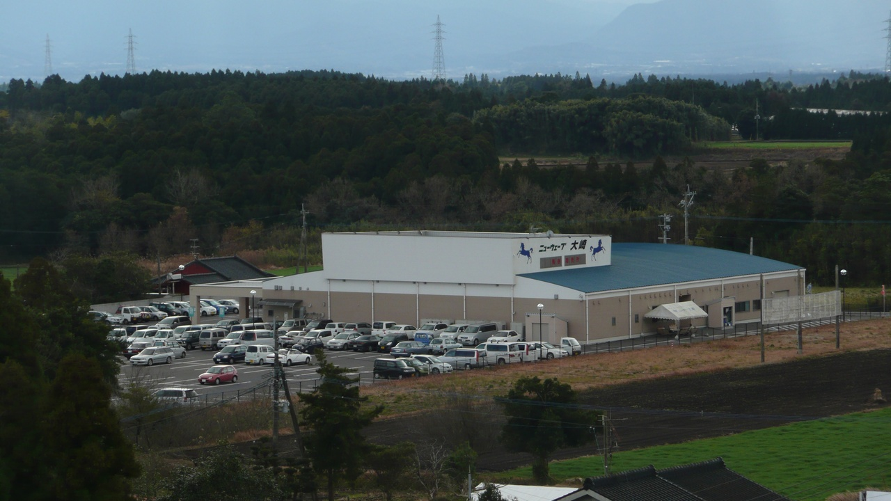 New Wave Osaki ((Osaki Town, Kagoshima, Japan)